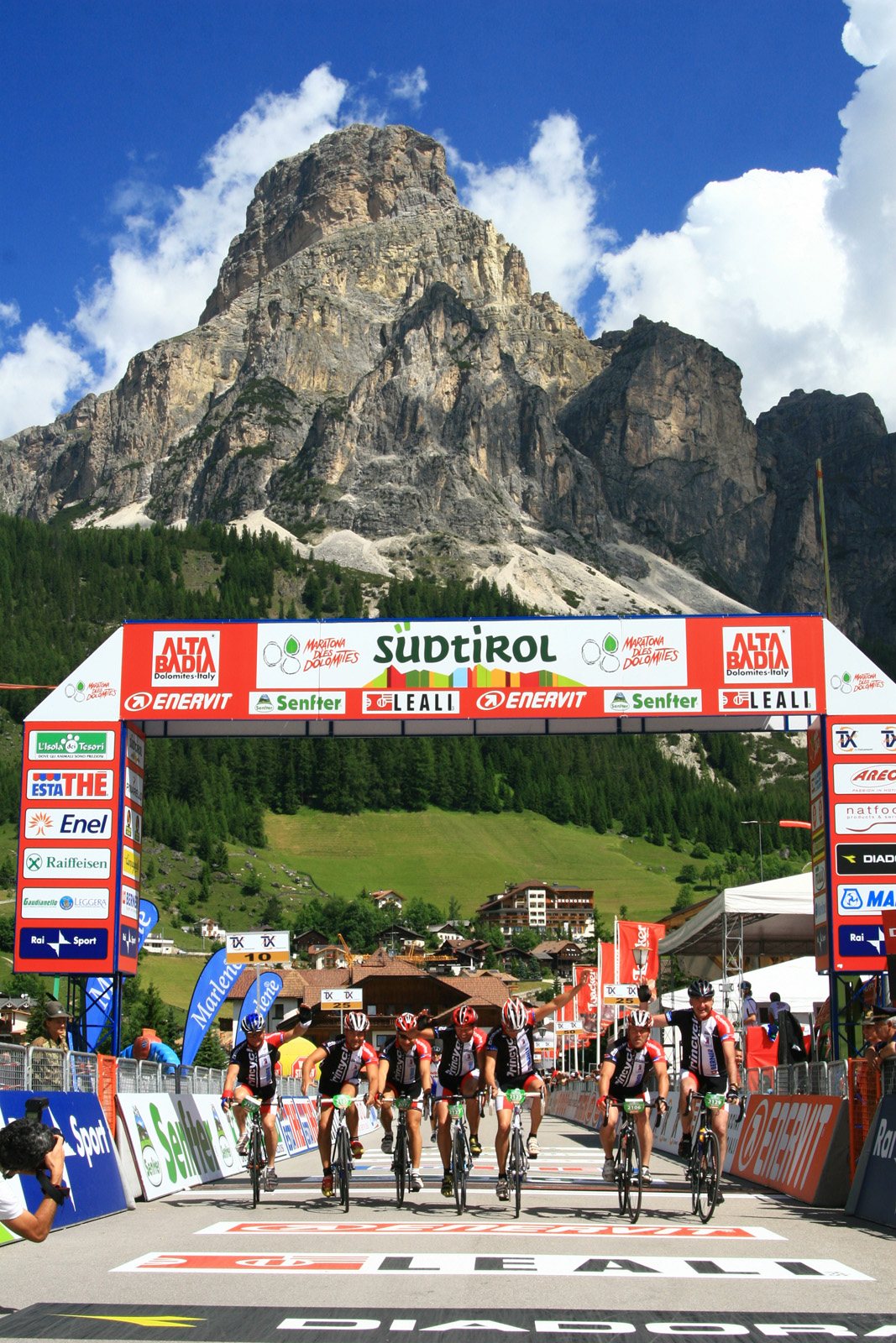 Maratona dles Dolomites 2008 edition finish in Corvara - Picture provided by Maratona dles Dolomites Committee